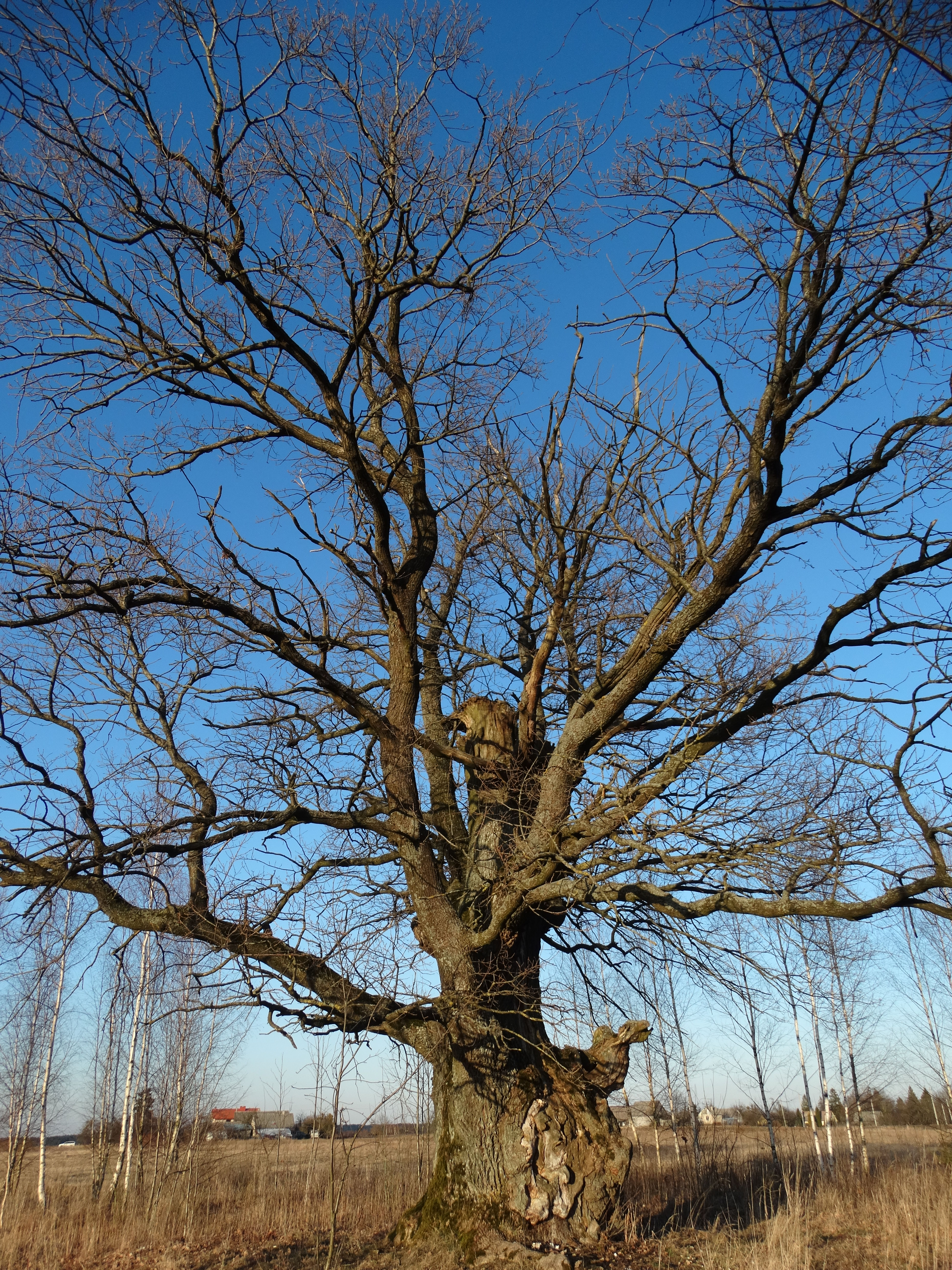 Karvelių oak, Pypliai village, Kaunas district, Lithuania